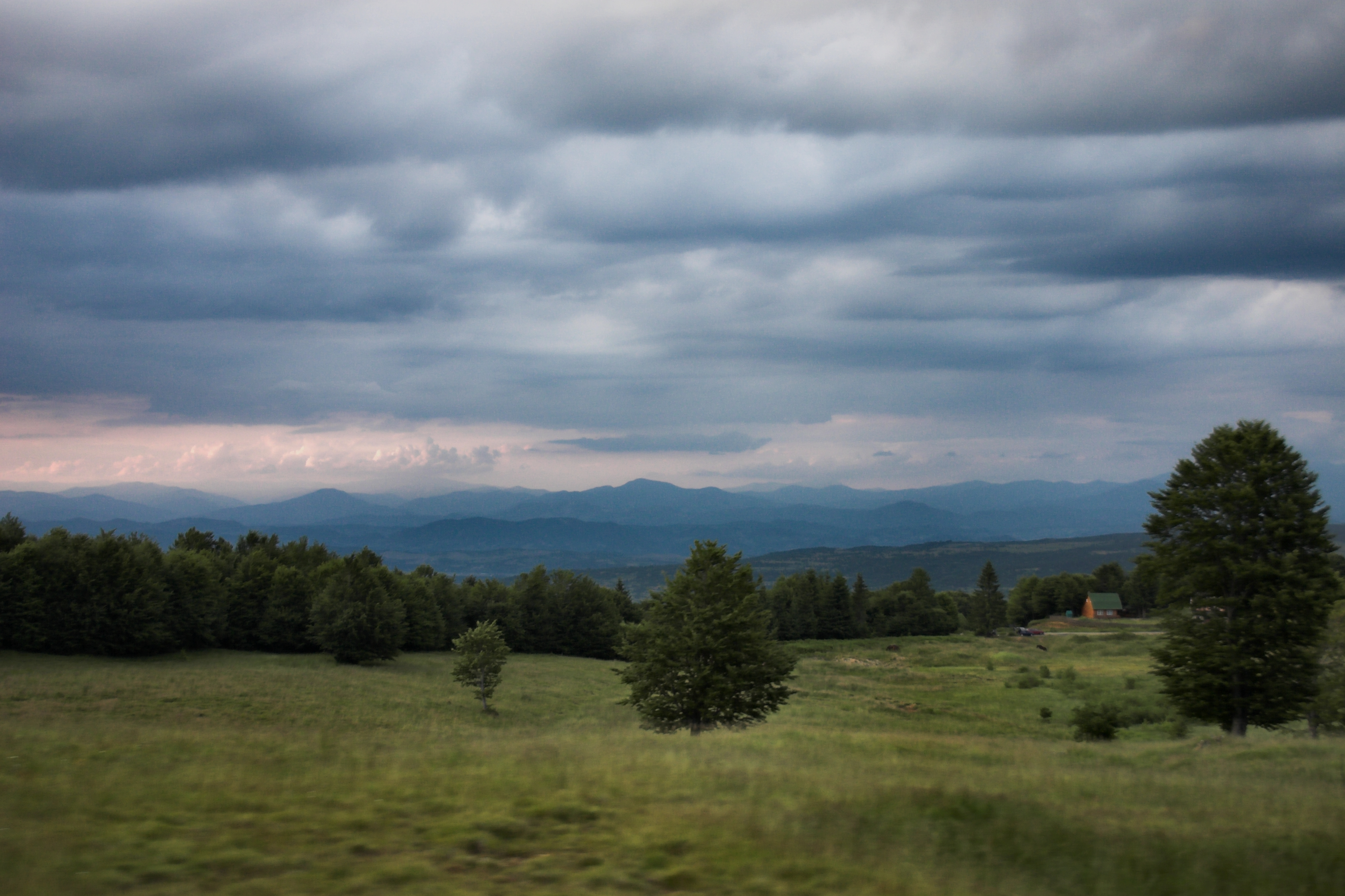 View to west part of Maramureş Mountains from south or southwest.